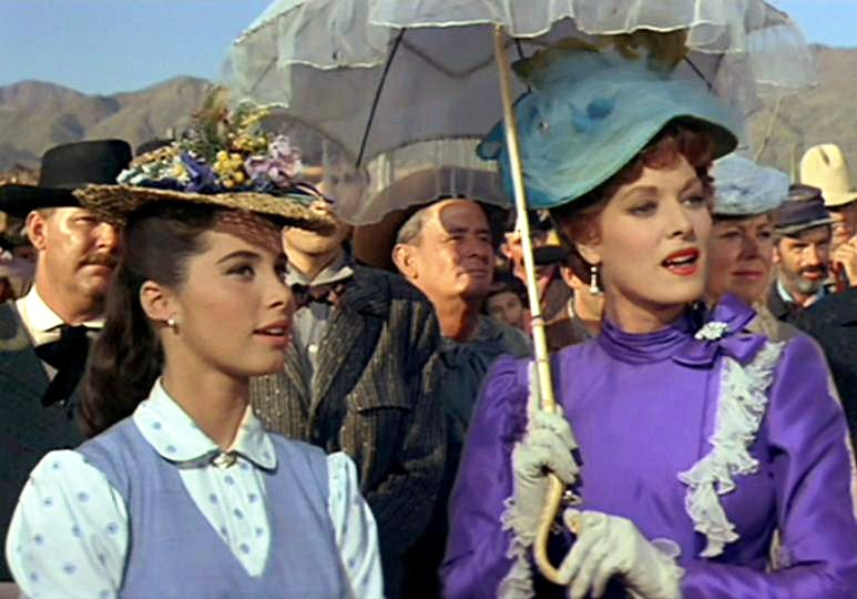 Stefanie Powers and Maureen O'Hara in McLintock! (cropped screenshot)